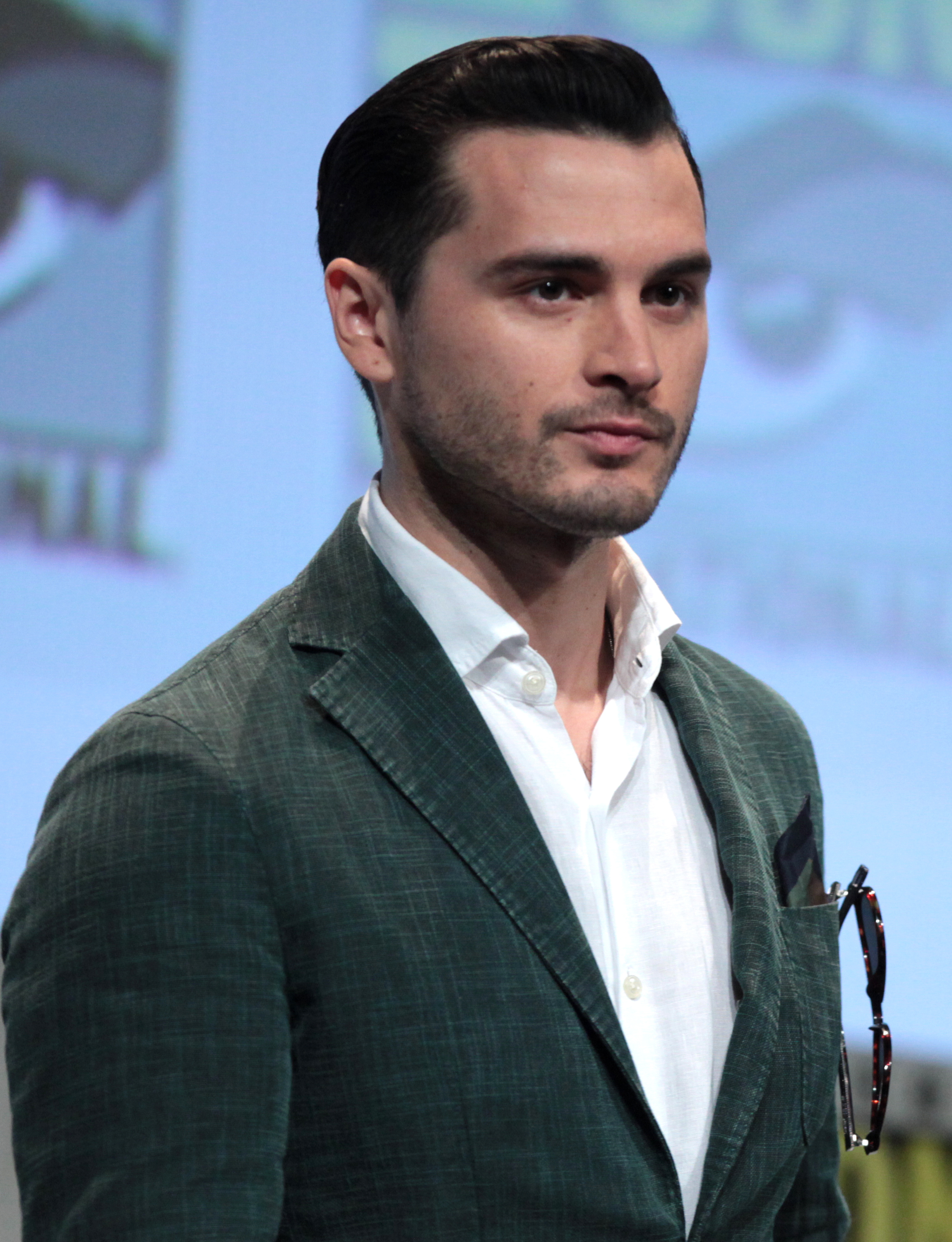 Michael Malarkey at the 2015 San Diego Comic Con International in San Diego, California.